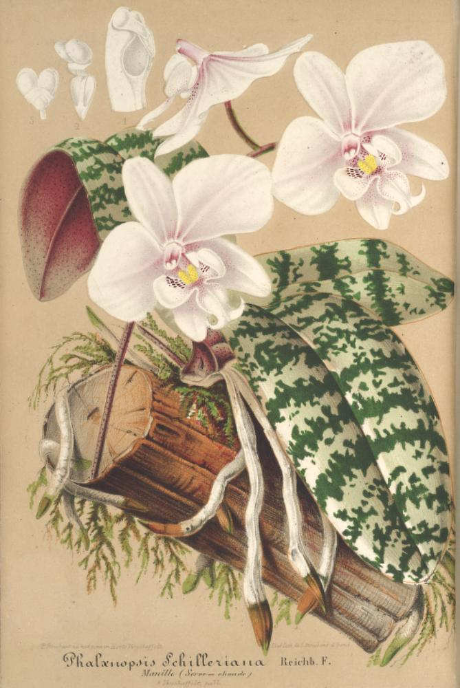 Phalaenopsis schilleriana